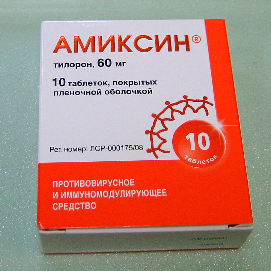 Amixin